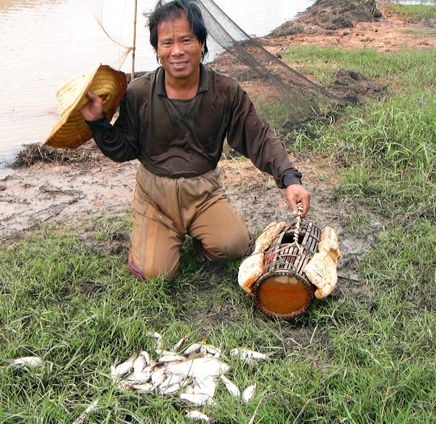 Thai fisherman catch the fish with nets.